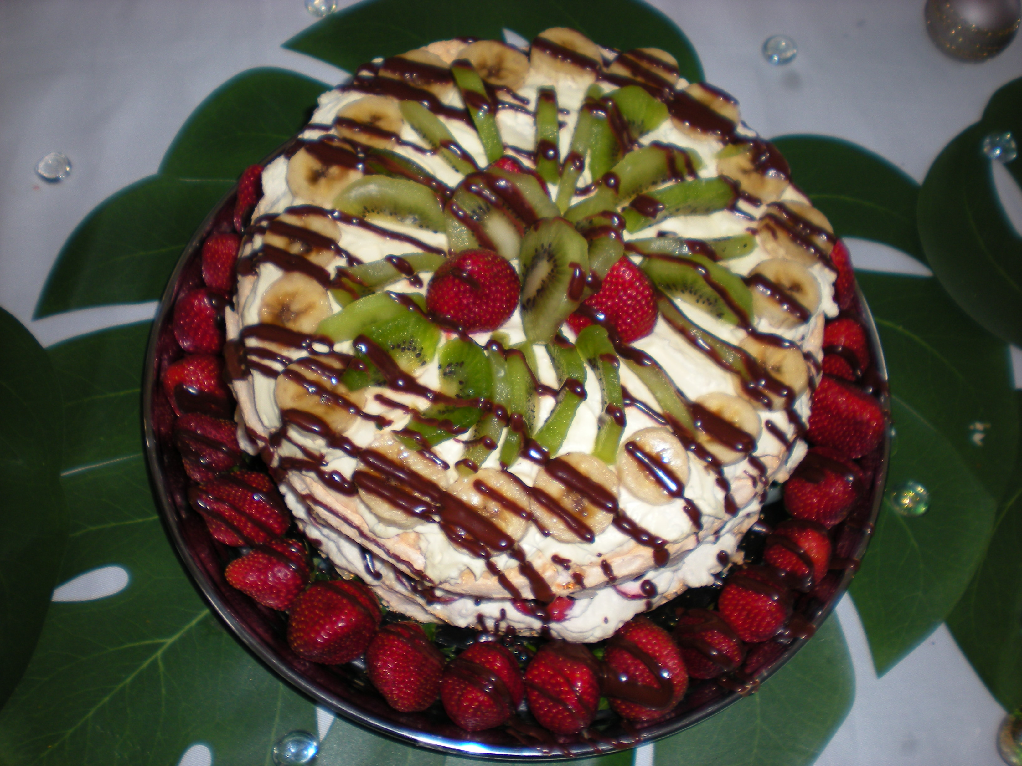 Pavlova